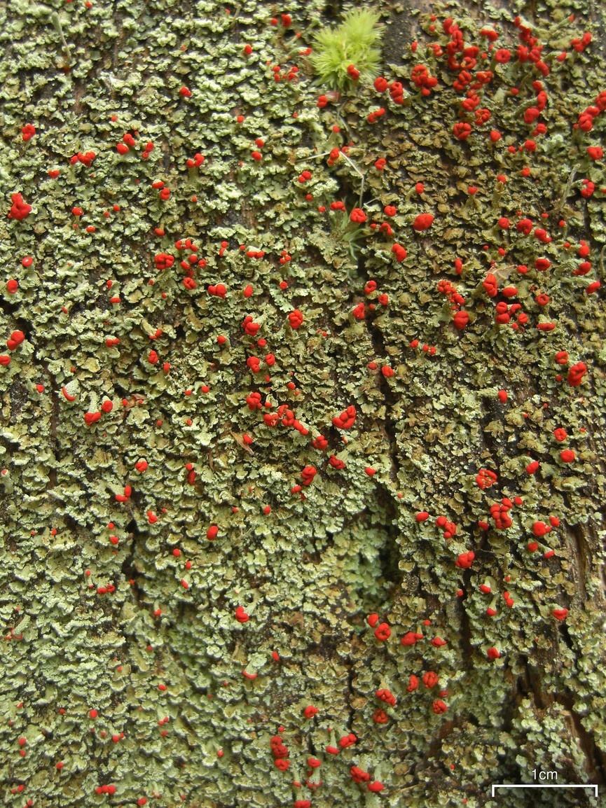 Cladonia incrassata 20091008.5 US, MD, Green Ridge State Forest